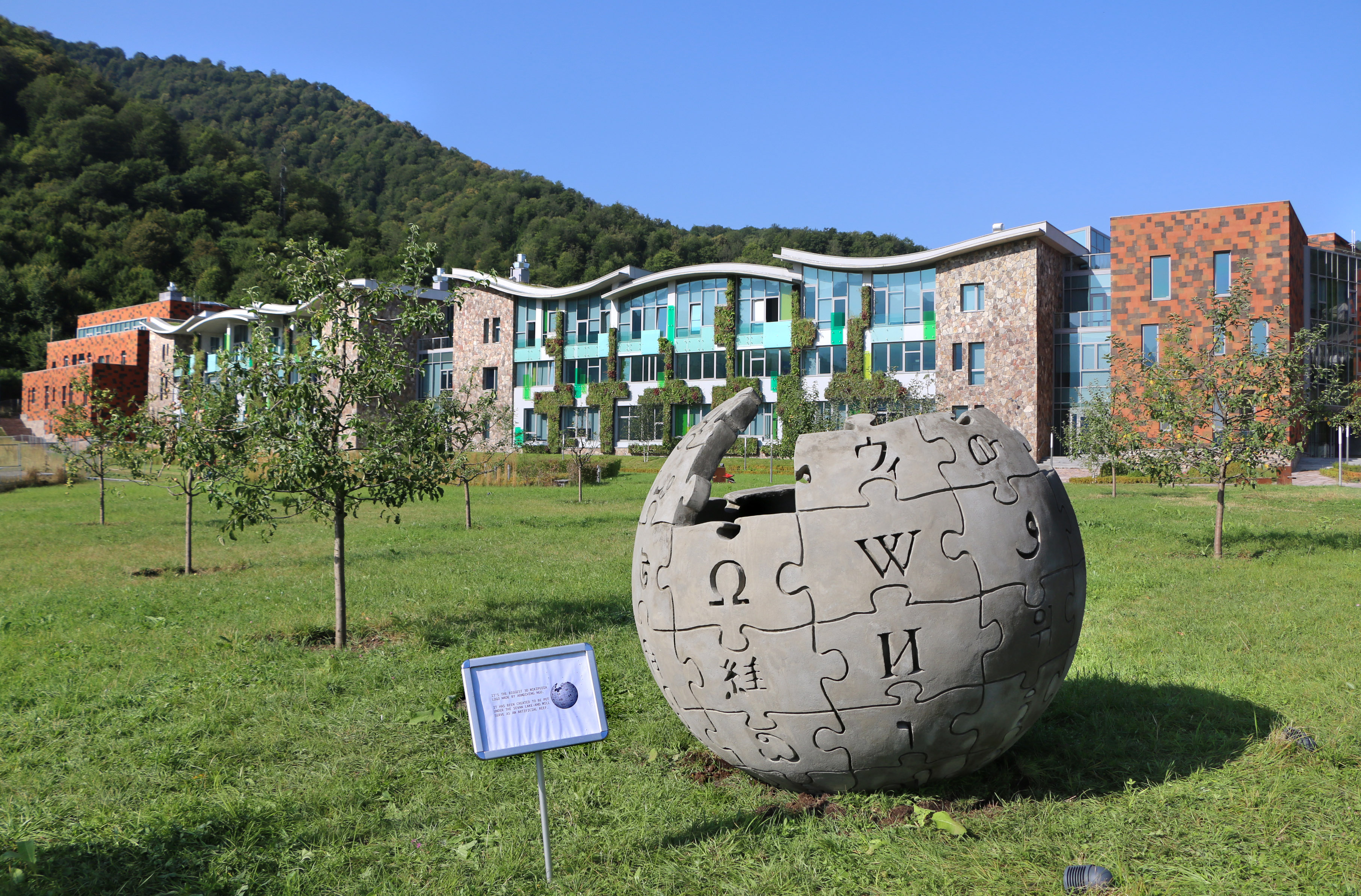 Wikimedia CEE Meeting 2016, Dilijan, Armenia – Wikipedia monument.